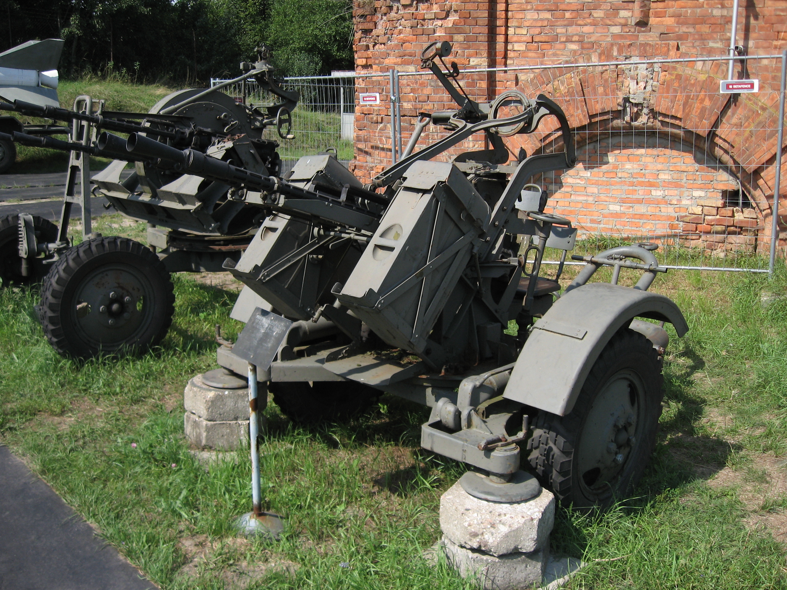 PKM-2 twin heavy anti-aircraft machine gun at the Muzeum Polskiej Techniki Wojskowej in Warsaw.